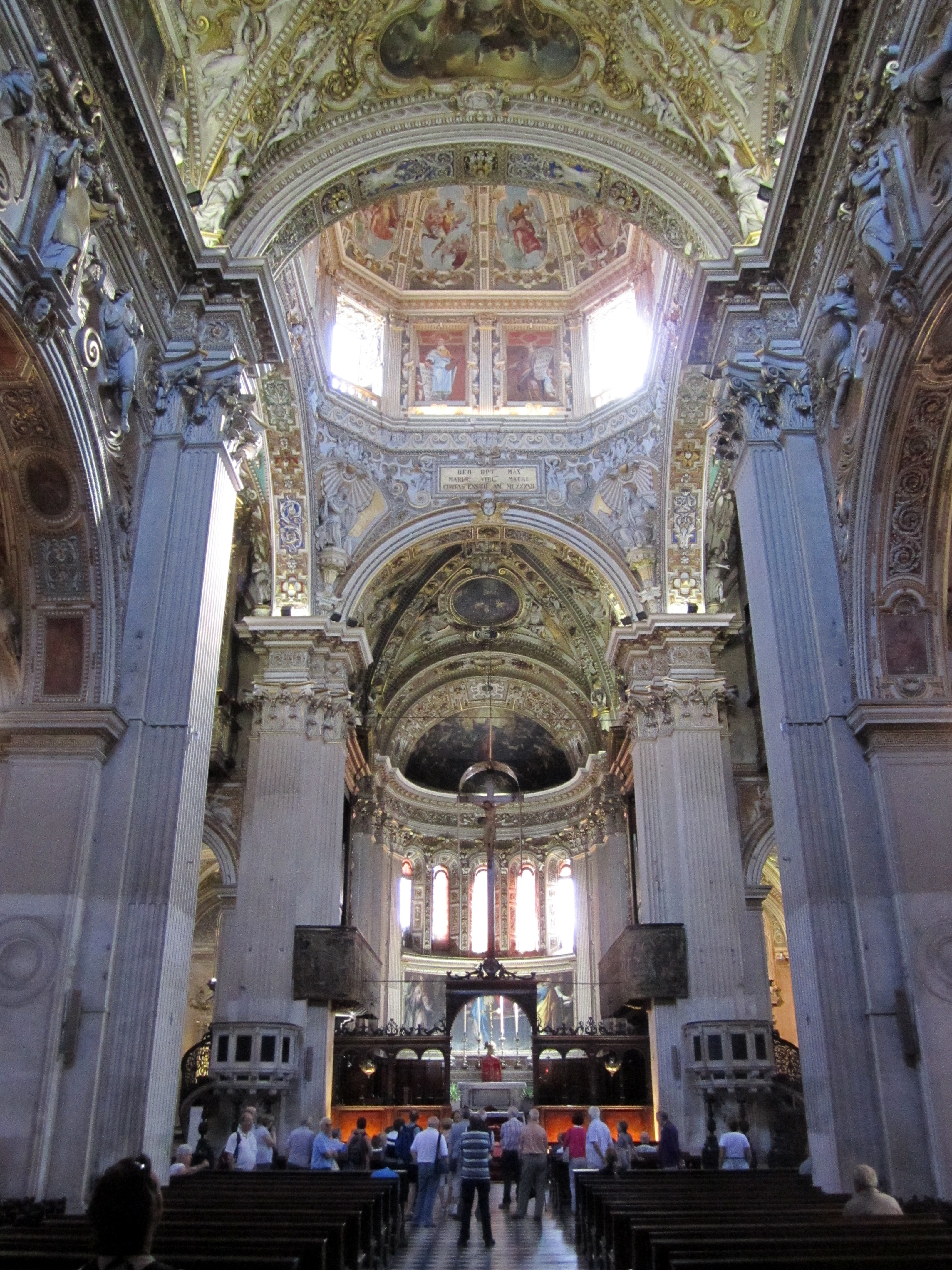 Interior of Santa Maria Maggiore (Bergamo)